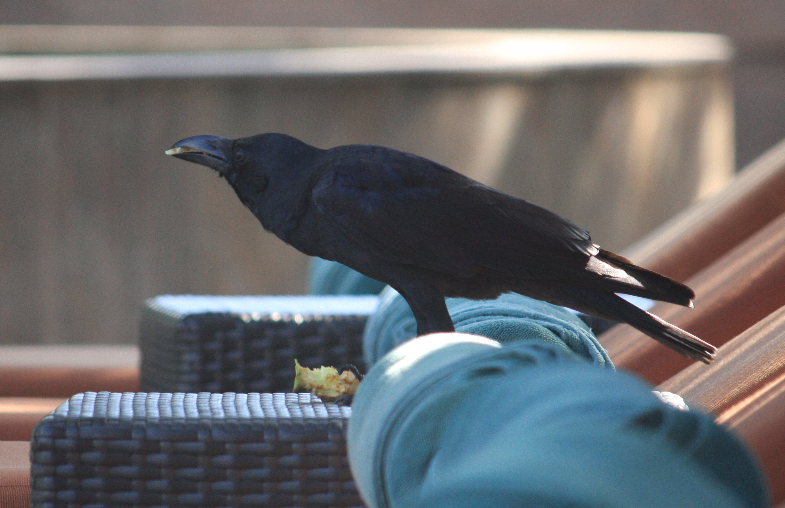 By the pool at The Westin Hotel, Oberoi, Mumbai - India, April 14 2014.